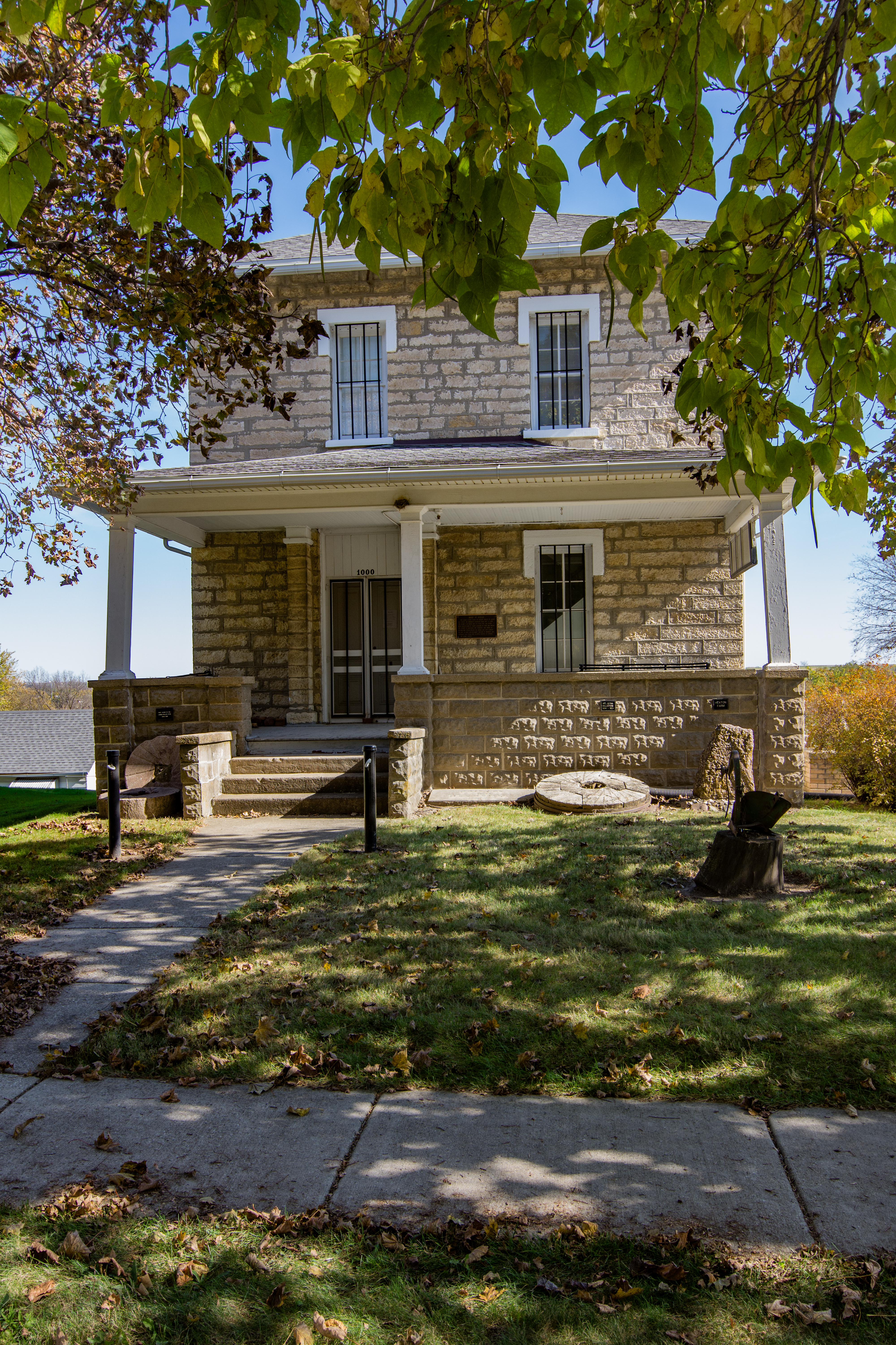 Adams County Jail (West face - front) Corning, Adams County, Iowa